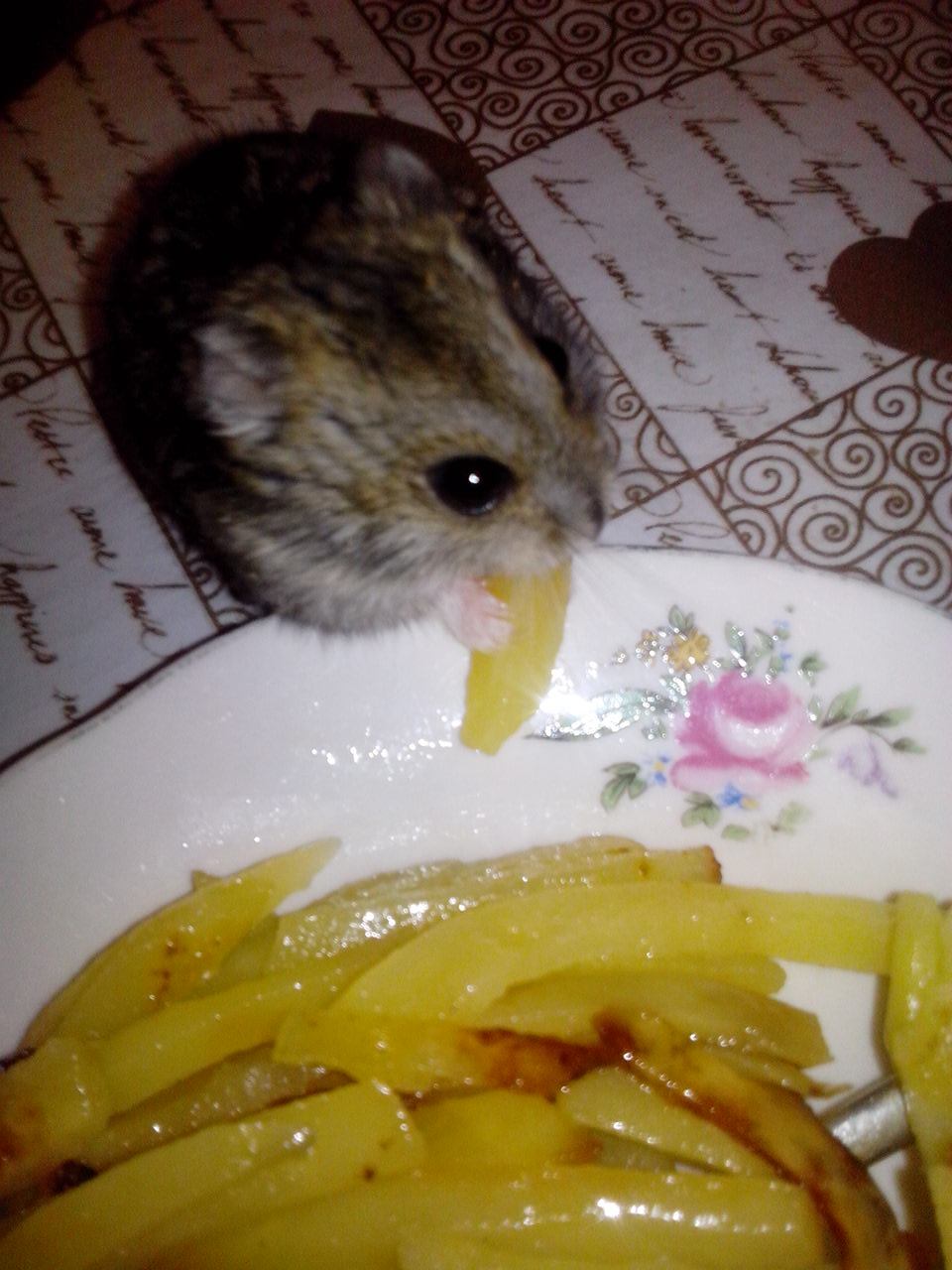 Phodopus sungorus